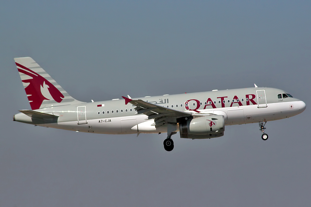 Airbus A319-133LR Qatar Airways A7-CJA